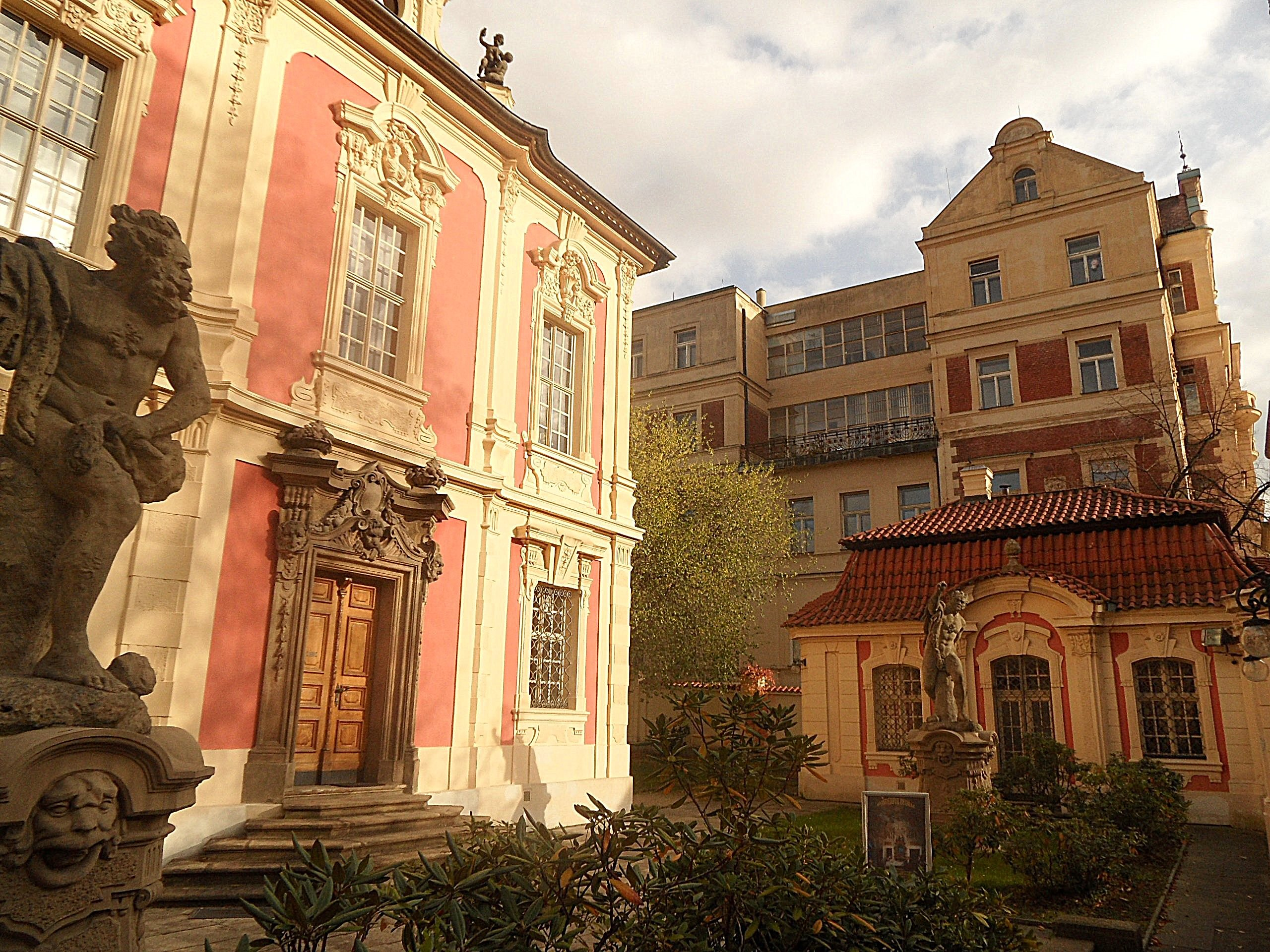 Prague-New Town: Muzeum Antonína Dvořáka, dooryard; October 2016